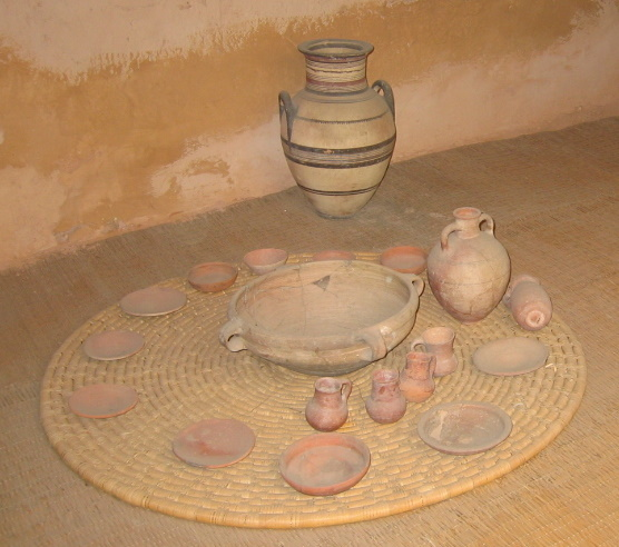 a reconstructed israelite house, Monarchy period, 10th-7th cents b.c.e. Eretz Israel Museum, Tel Aviv, Israel.